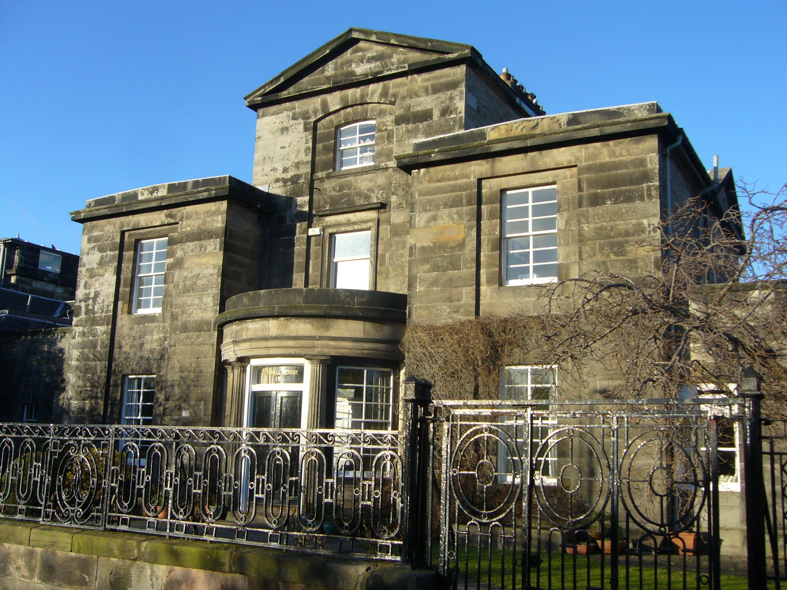 Once the property of an Edinburgh University Chancellor, the house's iron-railings, featuring the letter 'A' and anchor and trident motifs, belonged to the ocean-going liner 'Aquitania', launched by Clyde shipbuilders, John Brown, for Cunard's White Star Line in 1913.